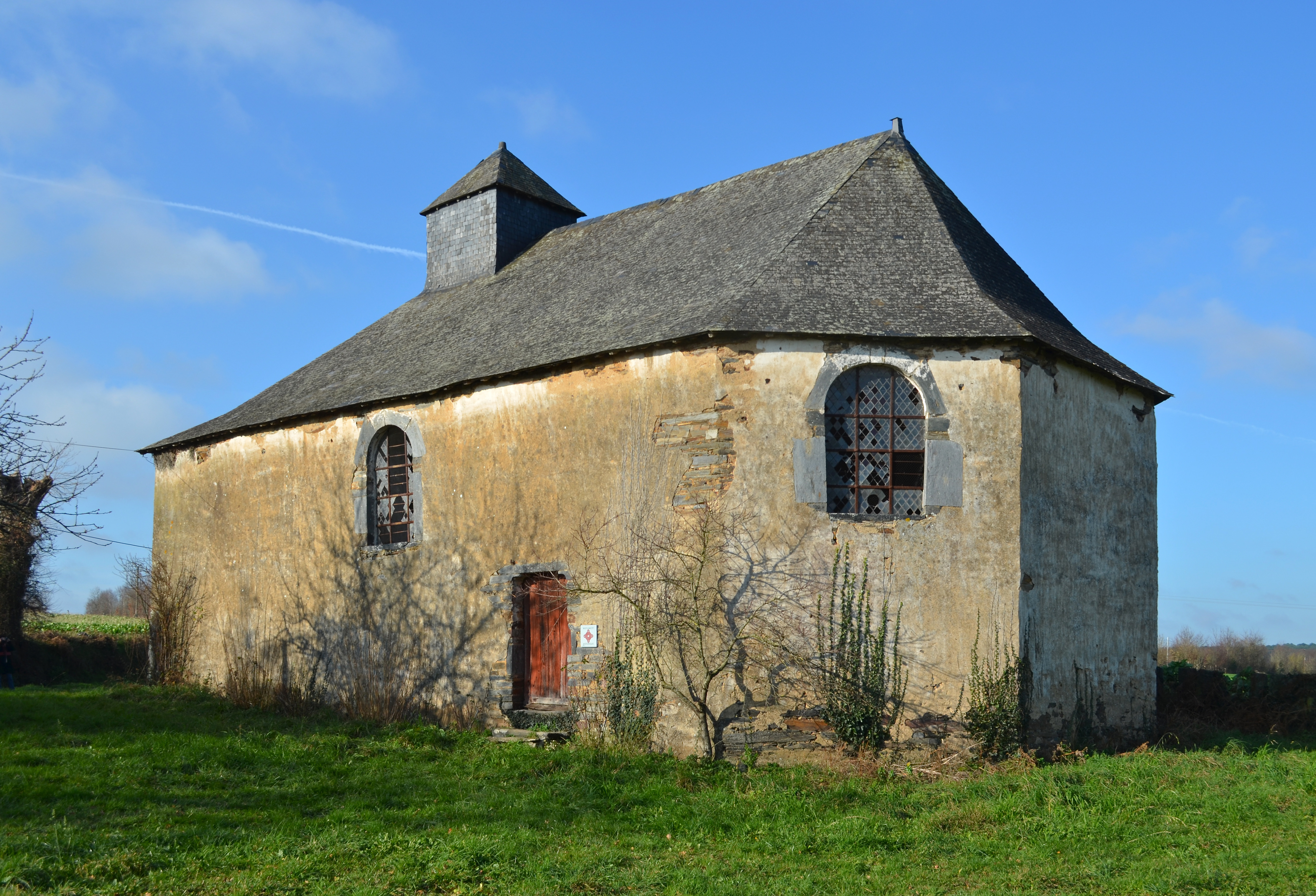 Saint-Georges de Penfao chapel - Guémené-Penfao (Loire-Atlantique) - France .